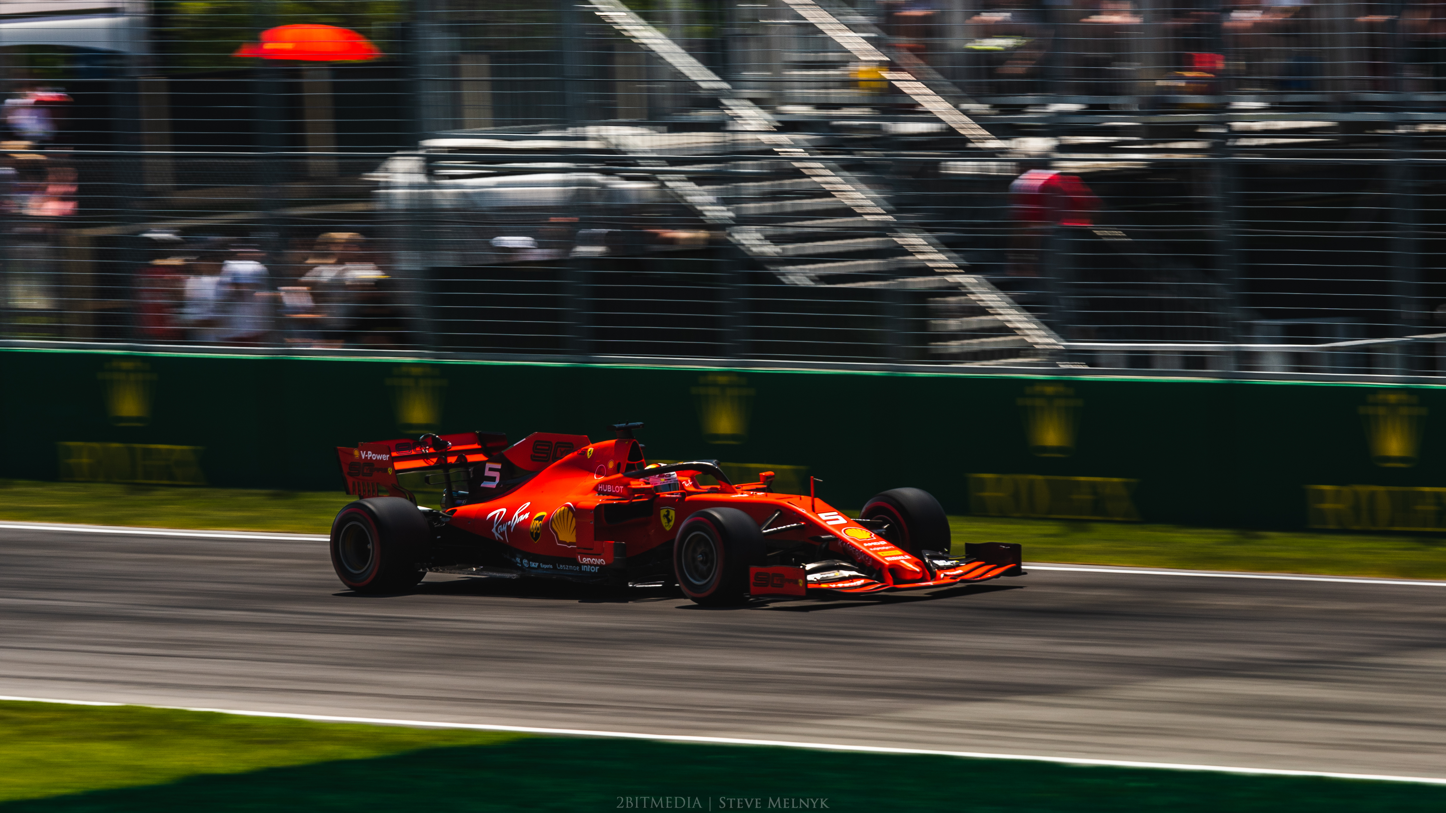 2019 Canadian Grand Prix Vettel.